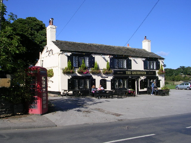 Tong Village - The Greyhound Inn. A famous hostelry around these parts. Tong is a typical english village, church, pub and cricket ground which is to the right behind the blue car